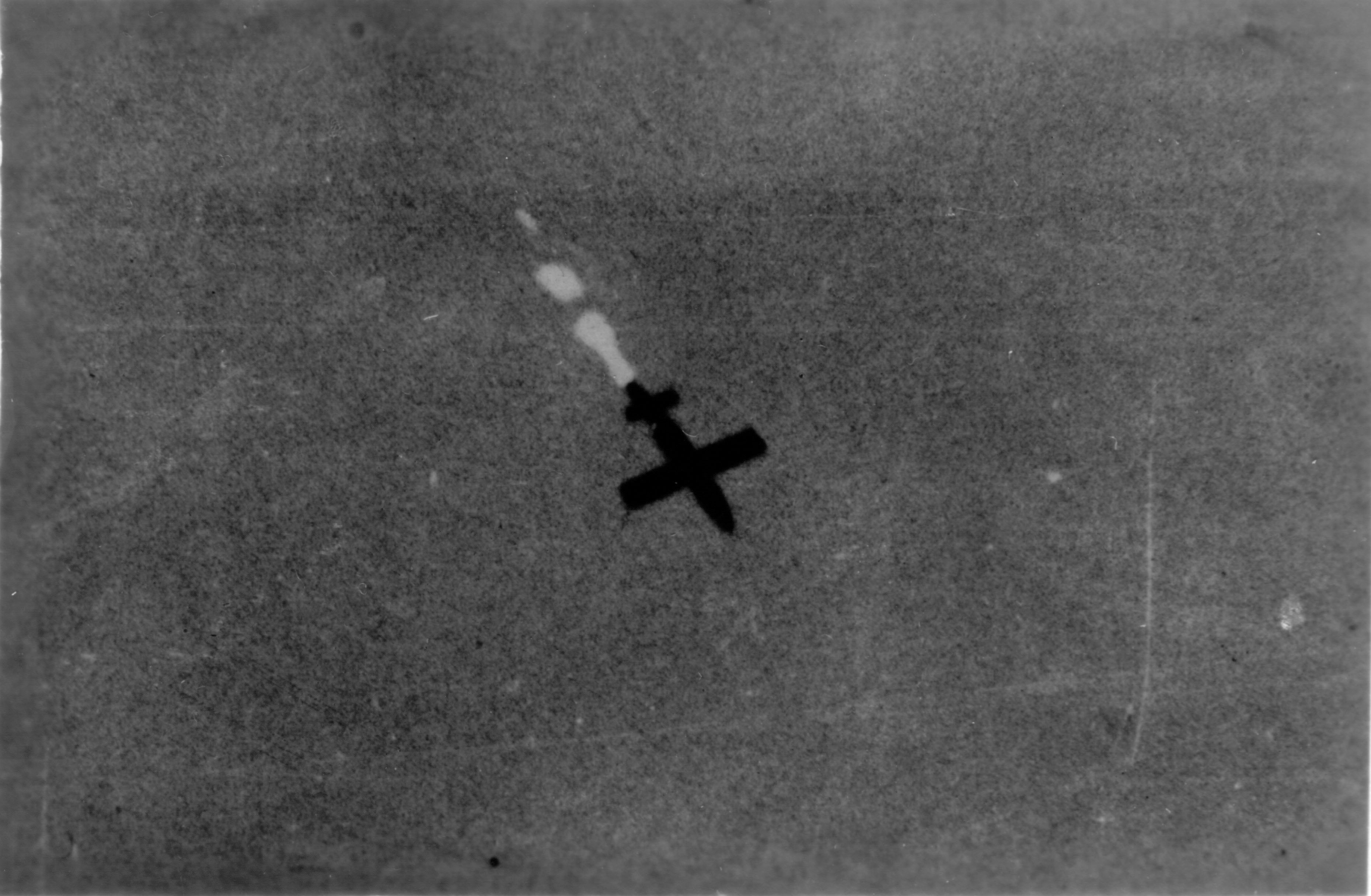 V-1 during flight. Photo taken by my grandfather Jan B.H.A. Vervloedt, now in the family archives. The photo shows a V-1 during flight, possibly above Lint, a village near Lier and Antwerp. Most probably this is one of the V1s fired at the port of Antwerp. The Fieseler Fi 103, better known as V-1 (German: Vergeltungswaffe 1) was an early cruise missile used during World War Two. The V-1 was developed at Peenemünde by the German Luftwaffe during the Second World War. Between 13 June 1944 and 29 March 1945, it was fired at population centres such as London and Antwerp.